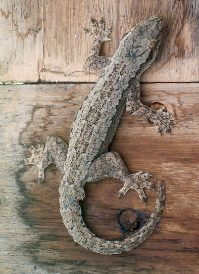 House gecko Cosymbotus platyurus, from Darmaga, Bogor, West Java, Indonesia